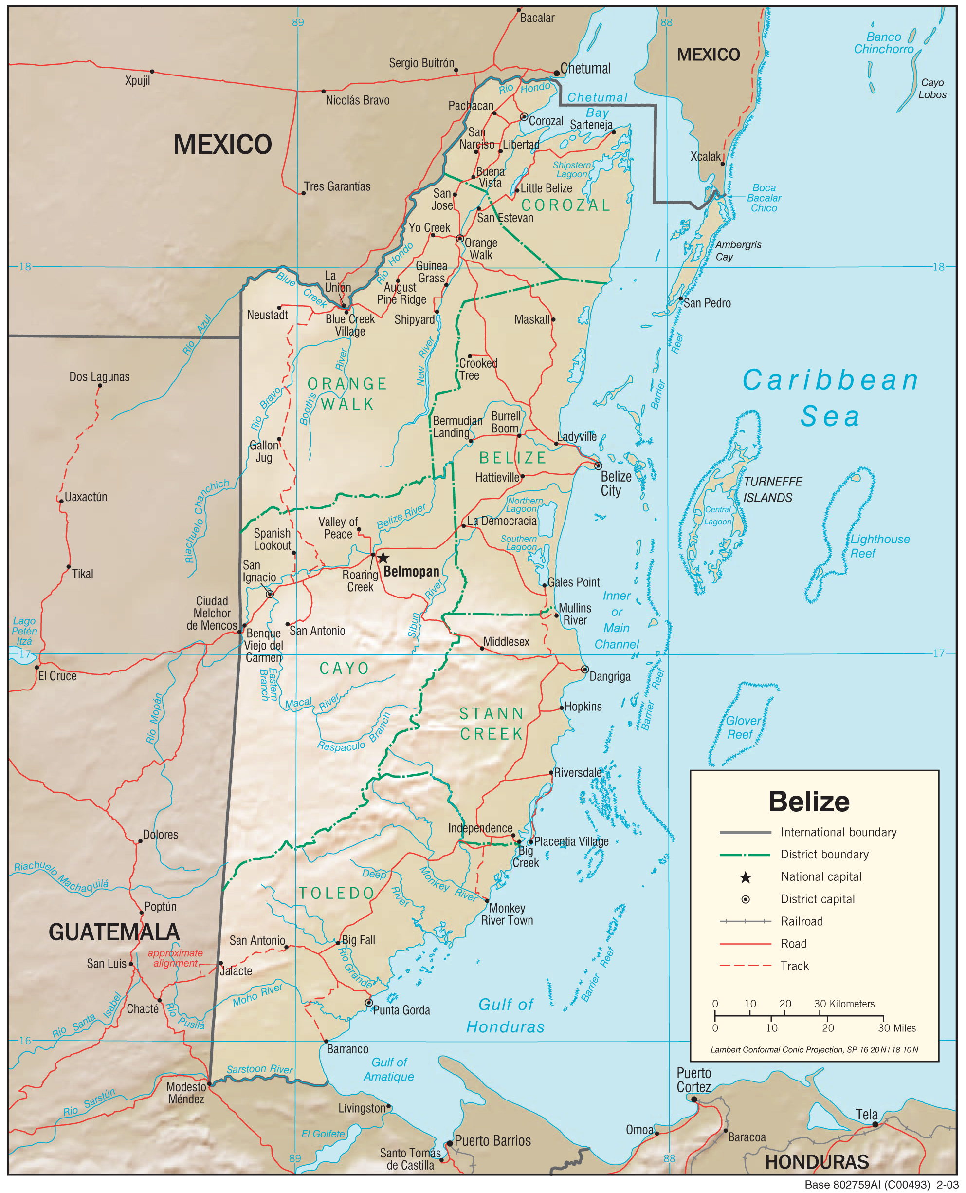 Shaded relief map of Belize